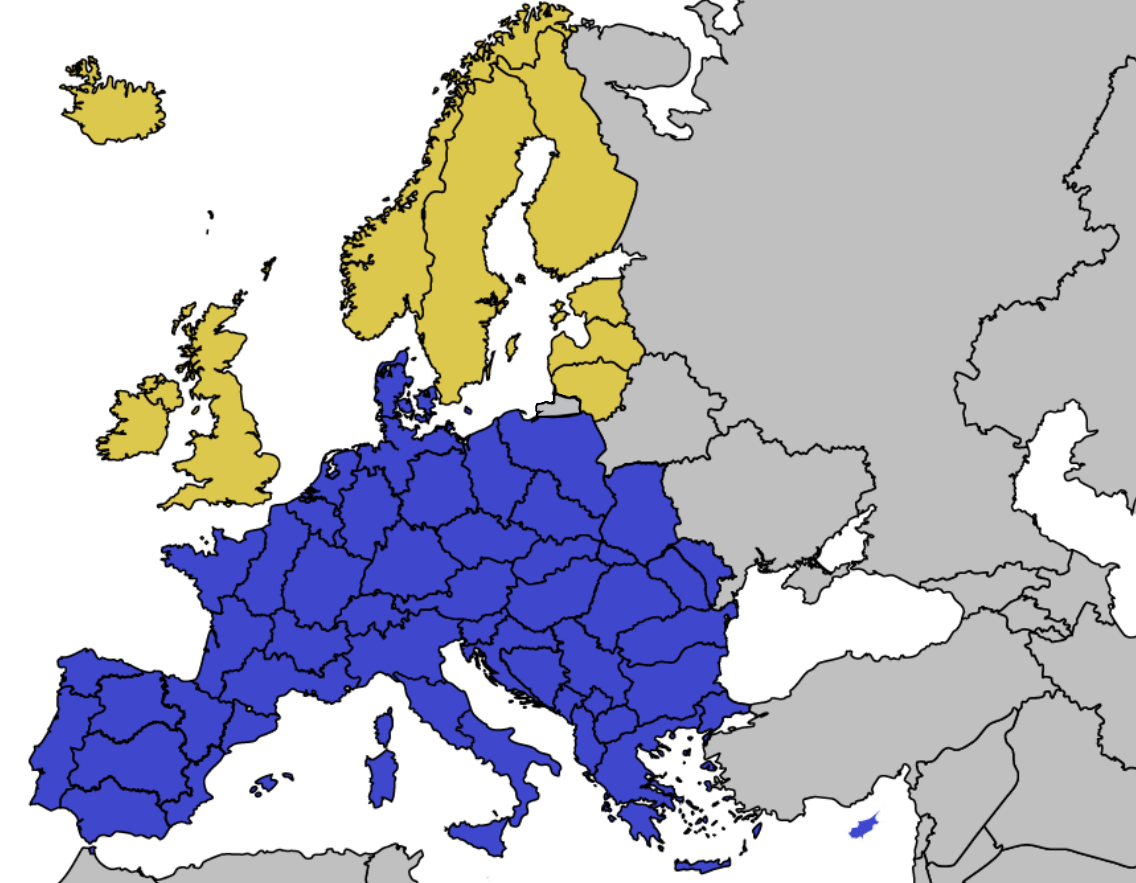 The United States of Europe to Heineken's draft with corrections after 2016.